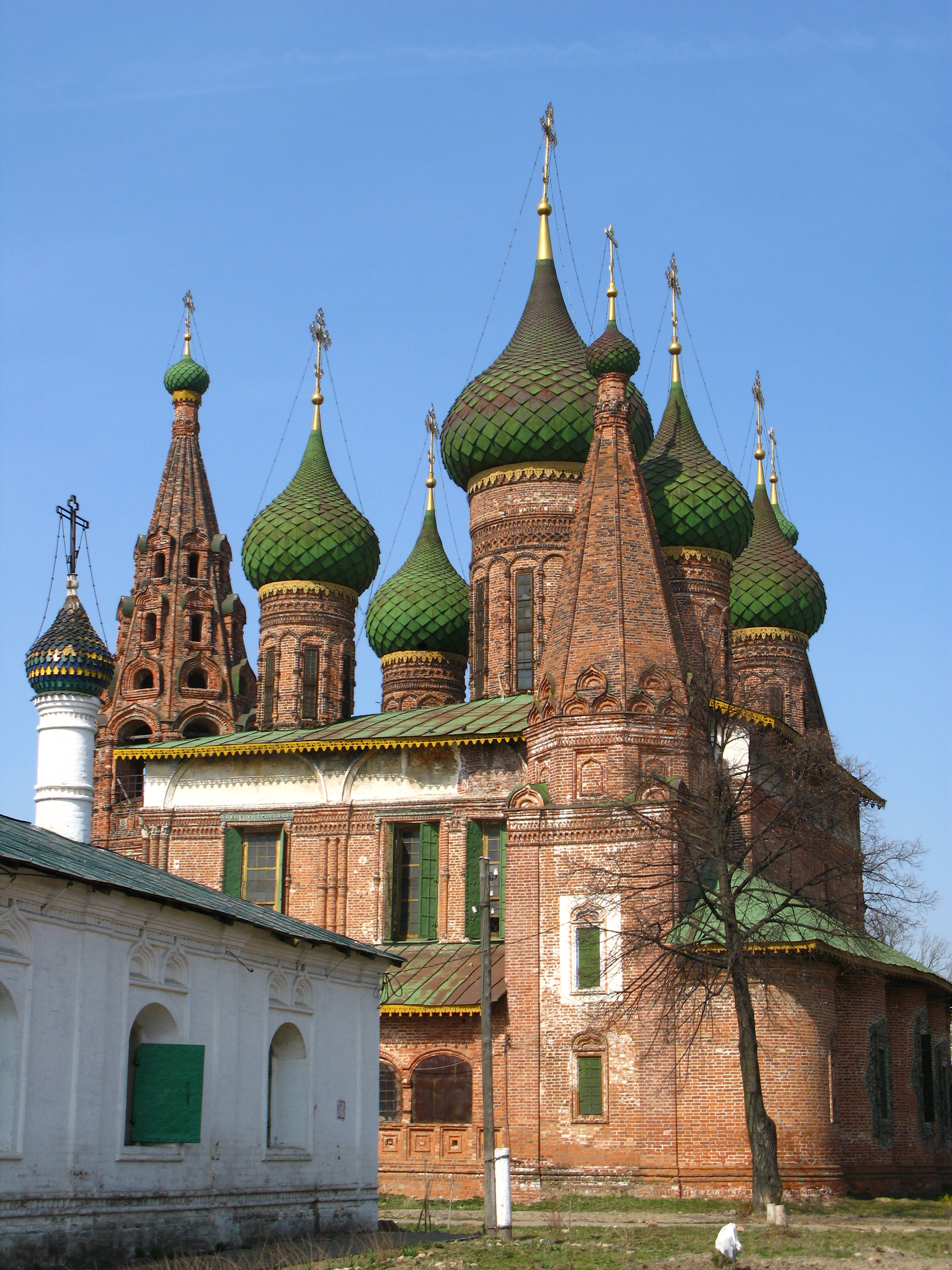 Church of Nikolay Mokry. Yaroslav, Russia.